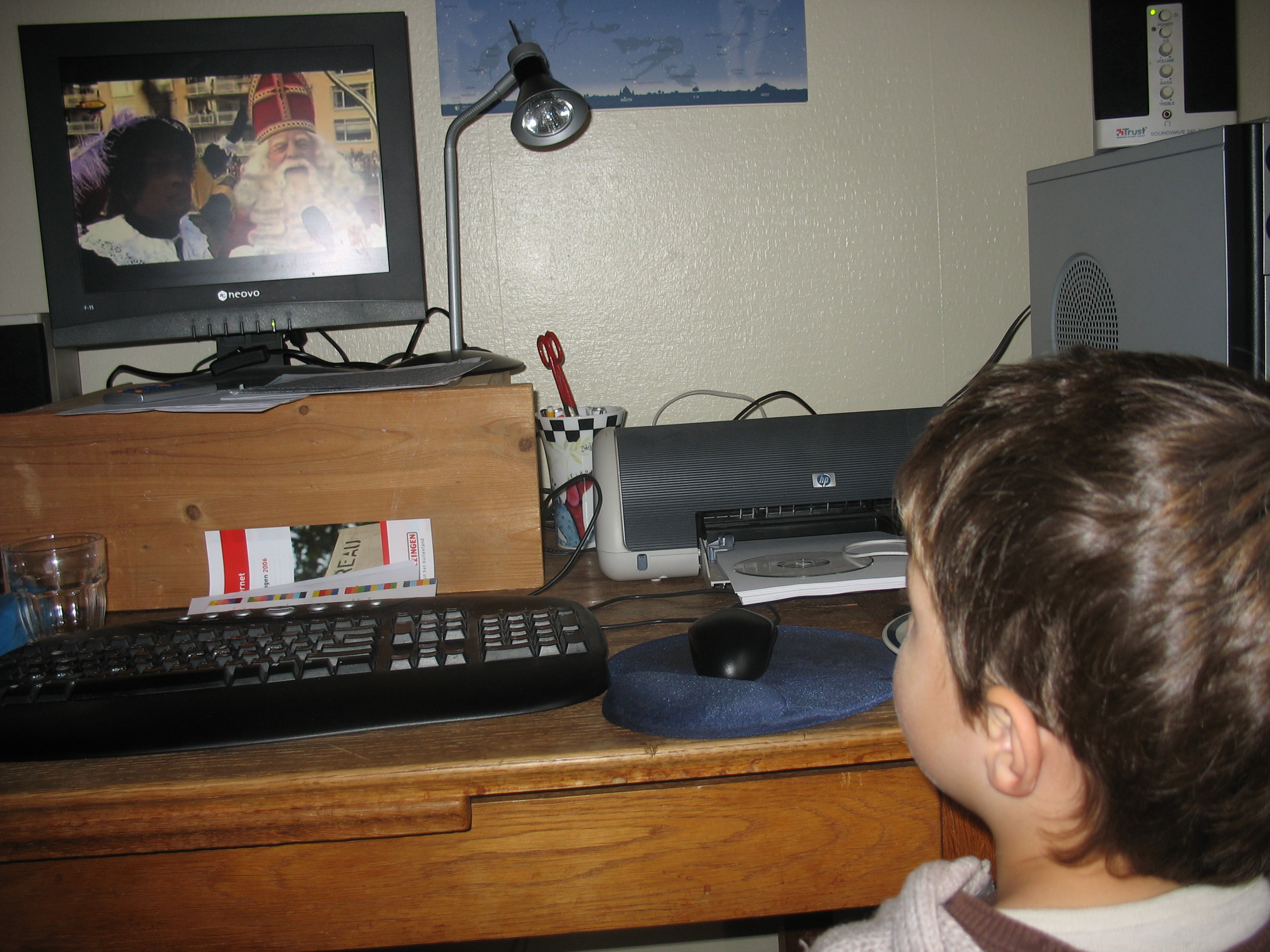 Uitzending Gemist: Dutch TV abroad. Batch: Selfmade pics